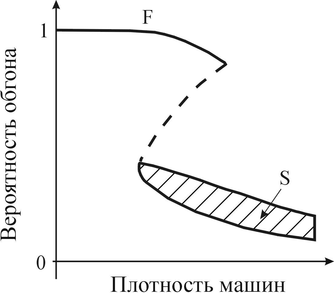 Explanation of traffic breakdown by a Z-like non-linear interrupted function of the probability of overtaking in Kerner’s three-phase traffic theory. The dotted curve illustrates the critical probability of overtaking as function of traffic density.